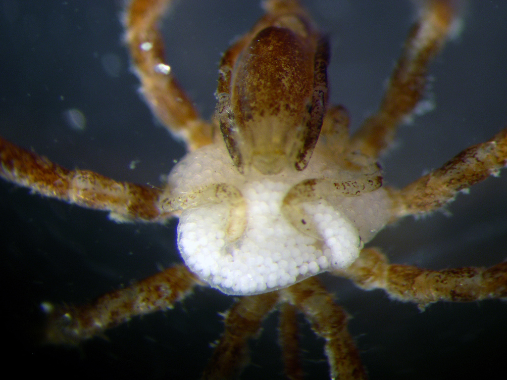 Close-up ventral view of male pantopod holding a cocoon with embryos using special appendages called ovigers. Note large proboscis in the top, proximal parts of eight legs and abdomen in the bottom.